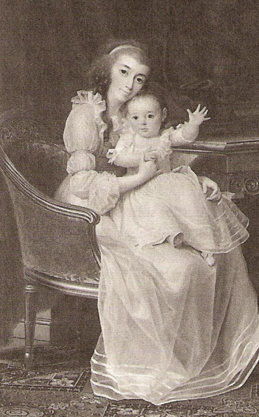 Sophia Frederica of Mecklenburg-Schwerin with her daughterDansk: Sophie Frederikke med datteren Juliane